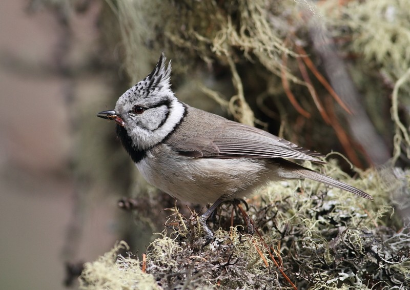 Lophophanes cristatus (Paridae) (European Crested Tit) - (adult), Oberengadin, Switzerland